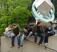 Shimer College students in front of Galvin Library on the campus of the Illinois Institute of Technology